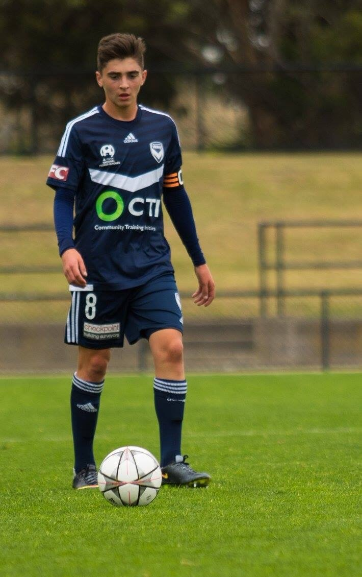 Soccer image